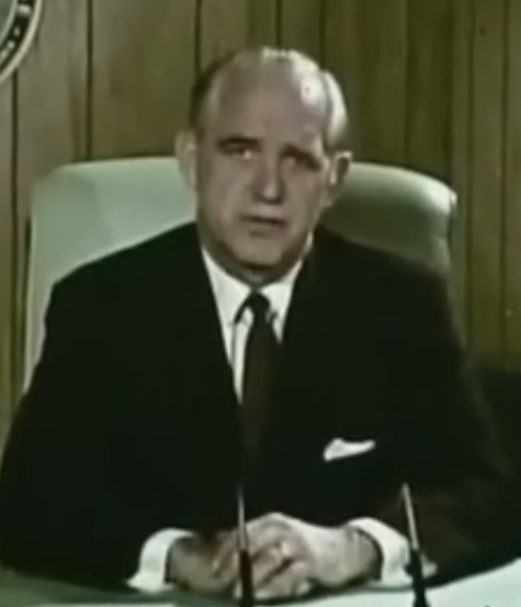 John E. Davis, then National Director of Civil Defense, introducing In Time of Emergency, a US government civil defense film from 1969.